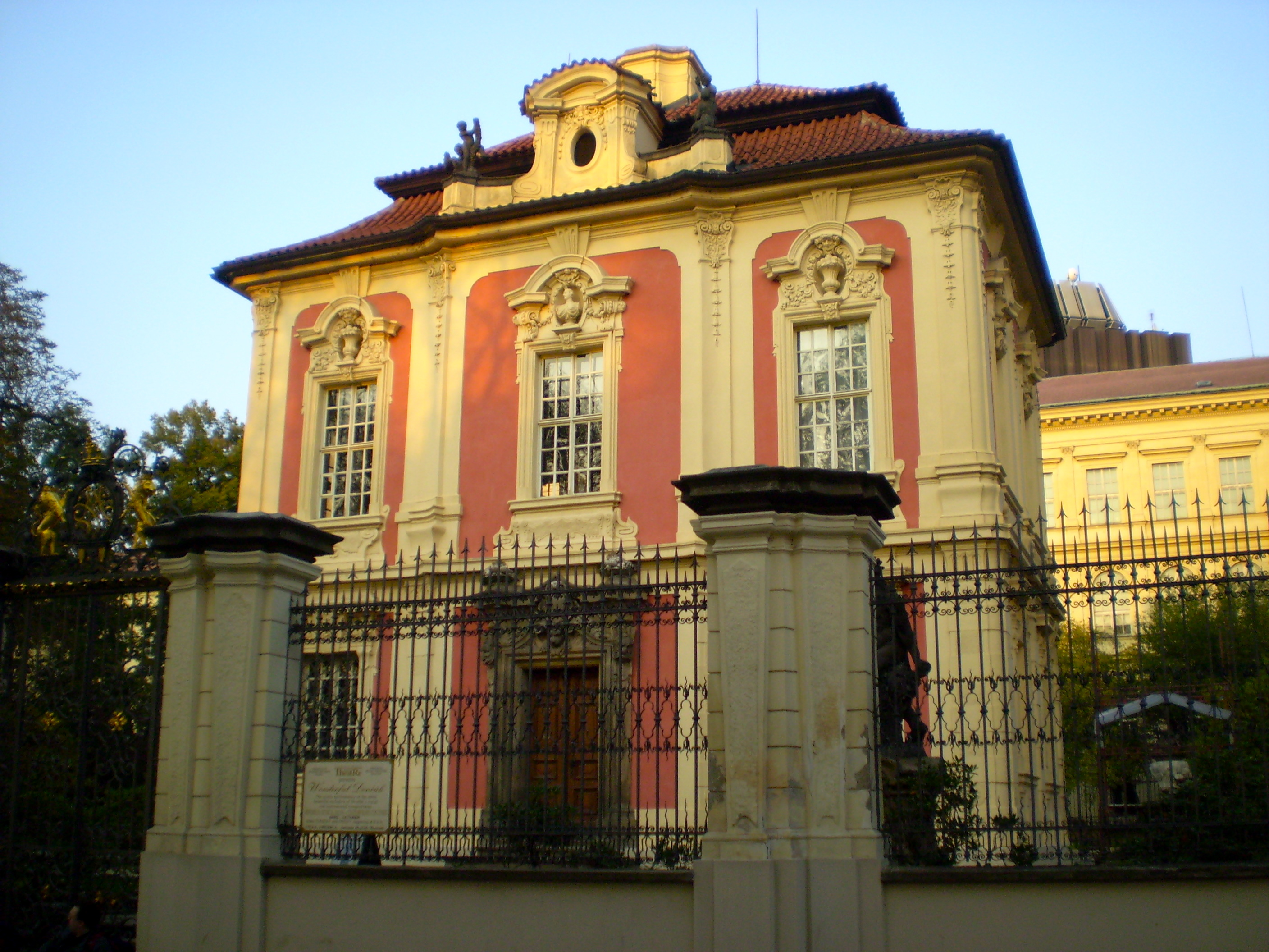 Dvorak Museum in Prague